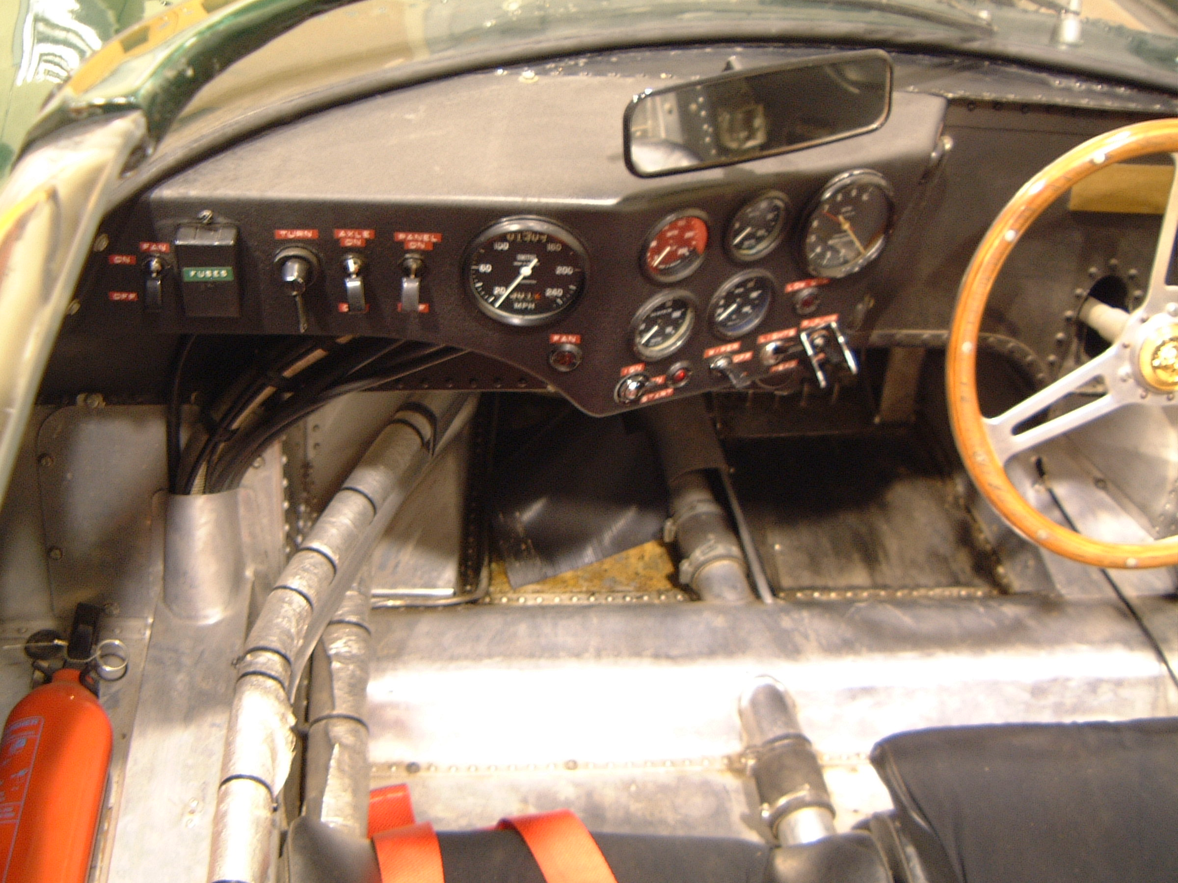 Author: Mike Morrin Photo taken at Jaguar Castle Bromwich Training Centre